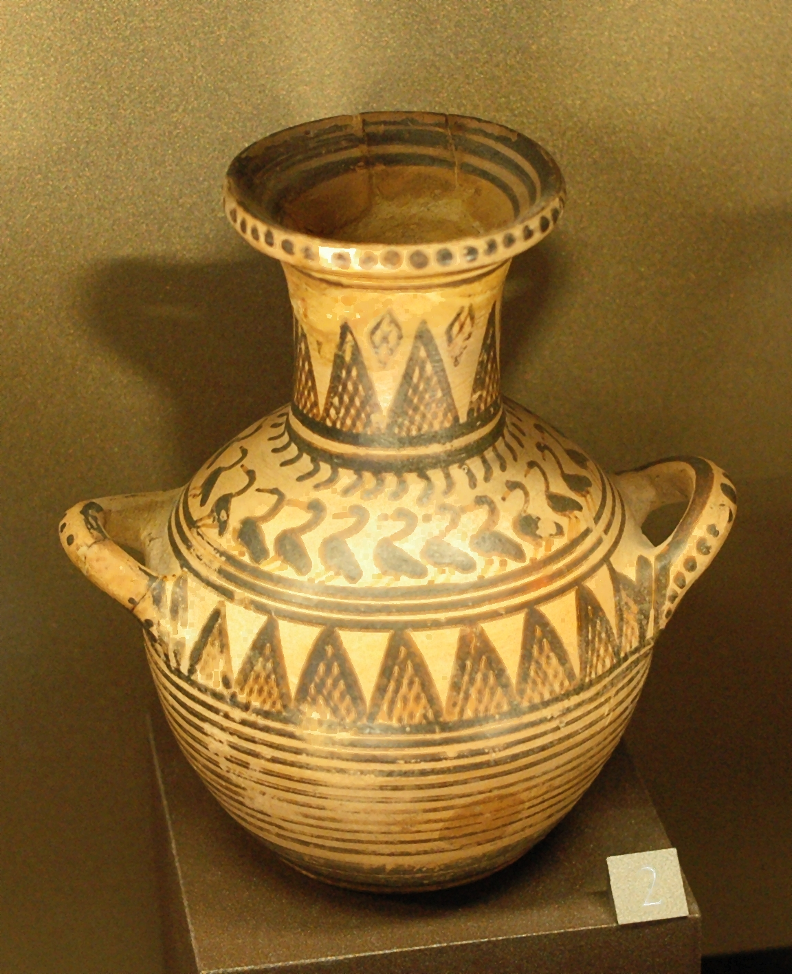 Attic miniature hydria, ca. 750 BC–700 BC (Late Attic Geometric), found in Thebes, Boeotia.